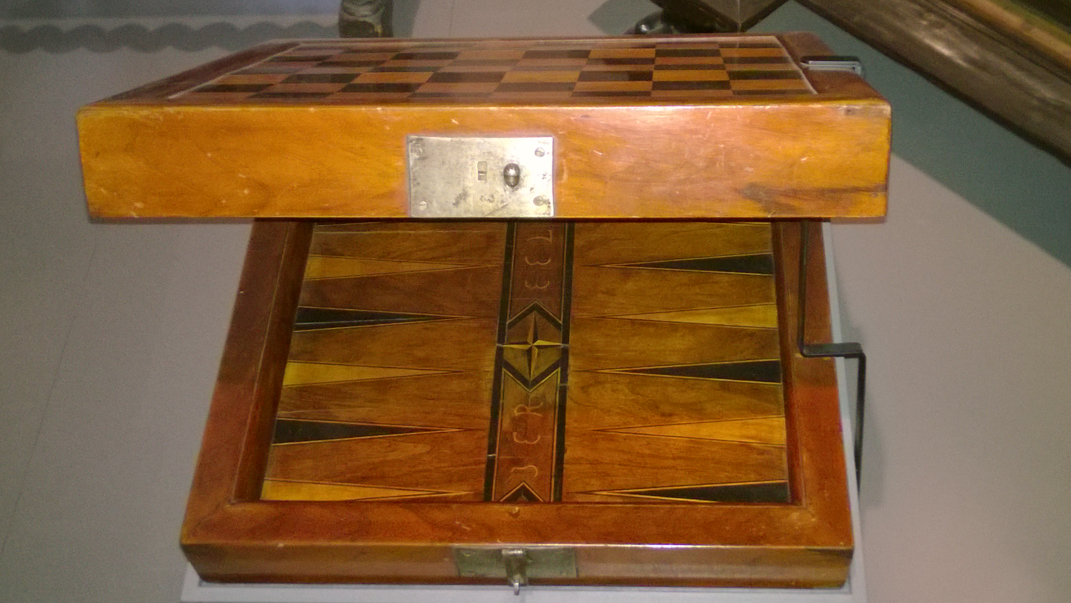 Backgammon table from year 1688. Located at Finnish national museo